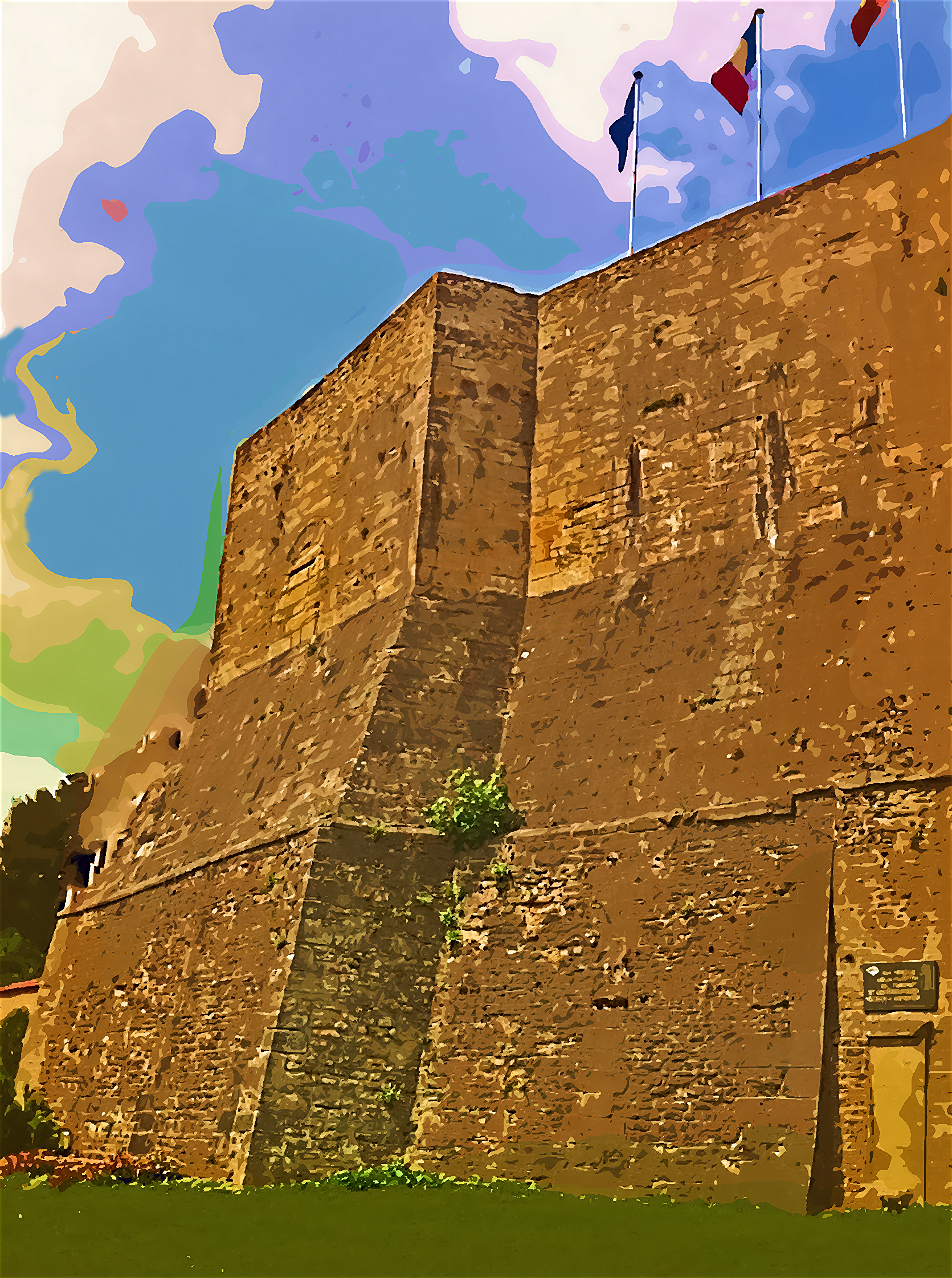 posterized image of the donjon of argentan, france